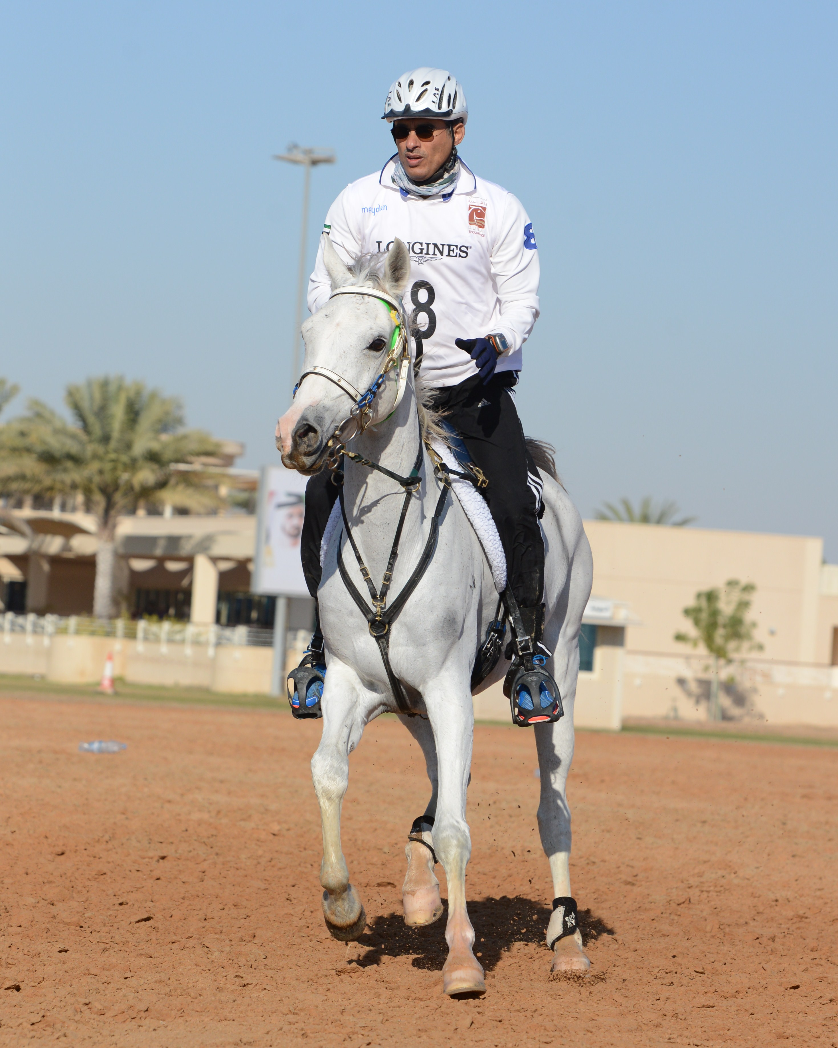 Mohamed Alabbar competes in the Sheikh Mohammed bin Rashid Al Maktoum Endurance Cup 2013